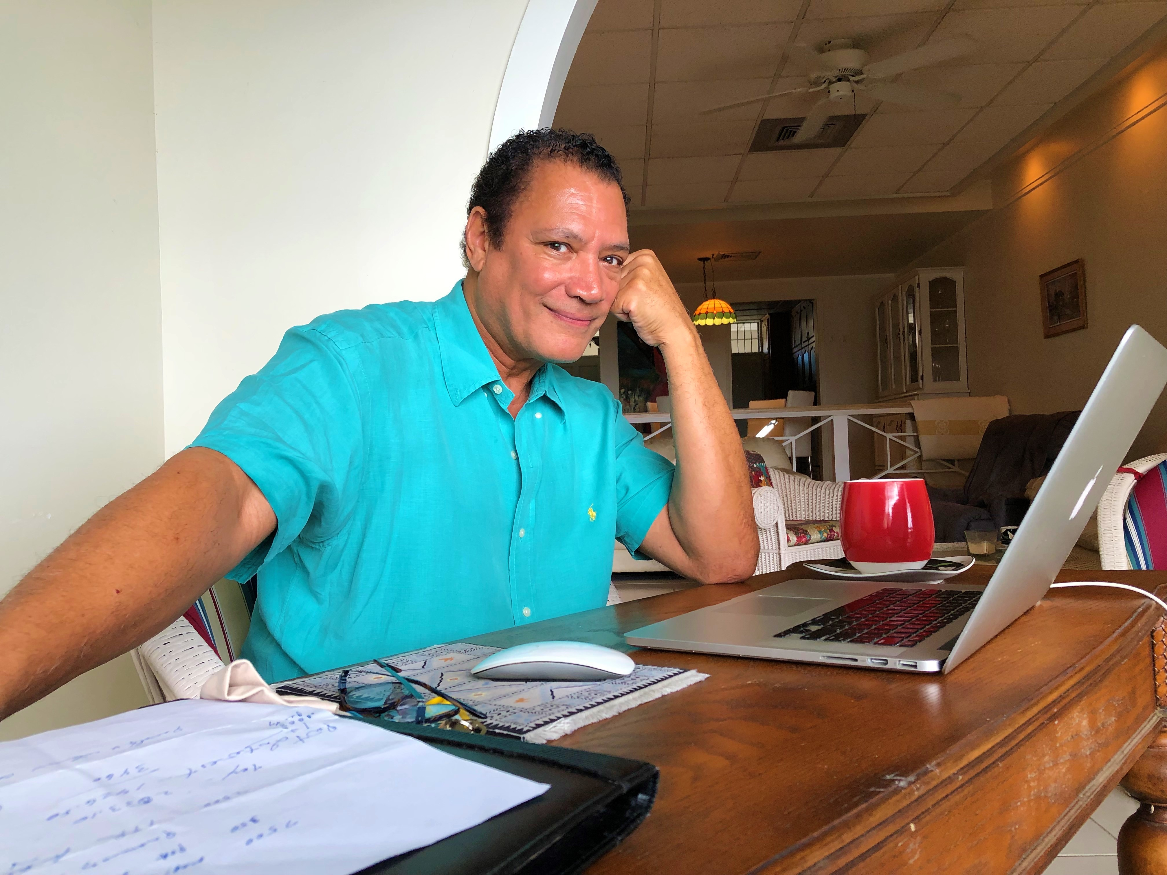 Ricardo "Rick" Khan is an actor, director and artistic director. He is co-founder and artistic director emeritus of Tony-Award winning African-American theatre company Crossroads Theatre of New Jersey. His plays include Fly, Sheila's Day, Satchel Paige and the Kansas City Swing, and Freedom Riders.His father was Trinidadian.